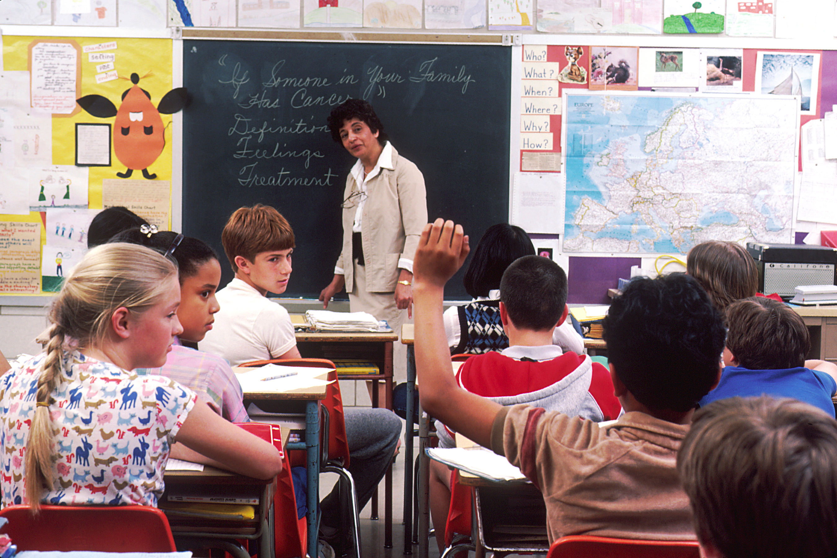 Title Children in a Classroom Description In the back of a classroom, are children about 11 years old with a female teacher talking about the subject - If Someone in Your Family Has Cancer. Topics/Categories Locations -- Academic Institution/School People -- Adult People -- Child People -- Group Type Color, Photo Source National Cancer Institute